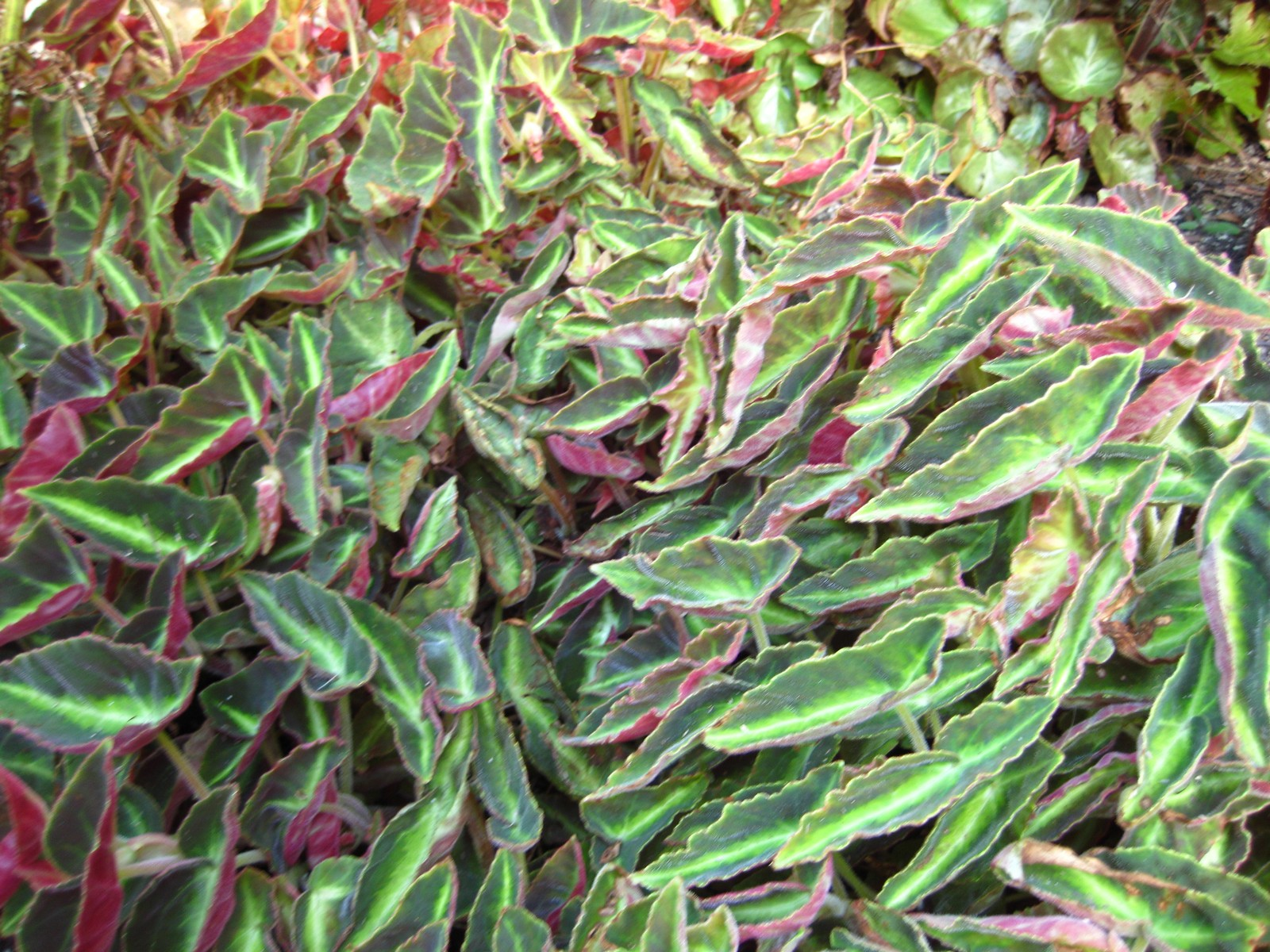 Photographed at the Royal Botanic Gardens Sydney (Australia) in December